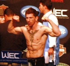 Mike Brown WEC 51 weigh-ins.